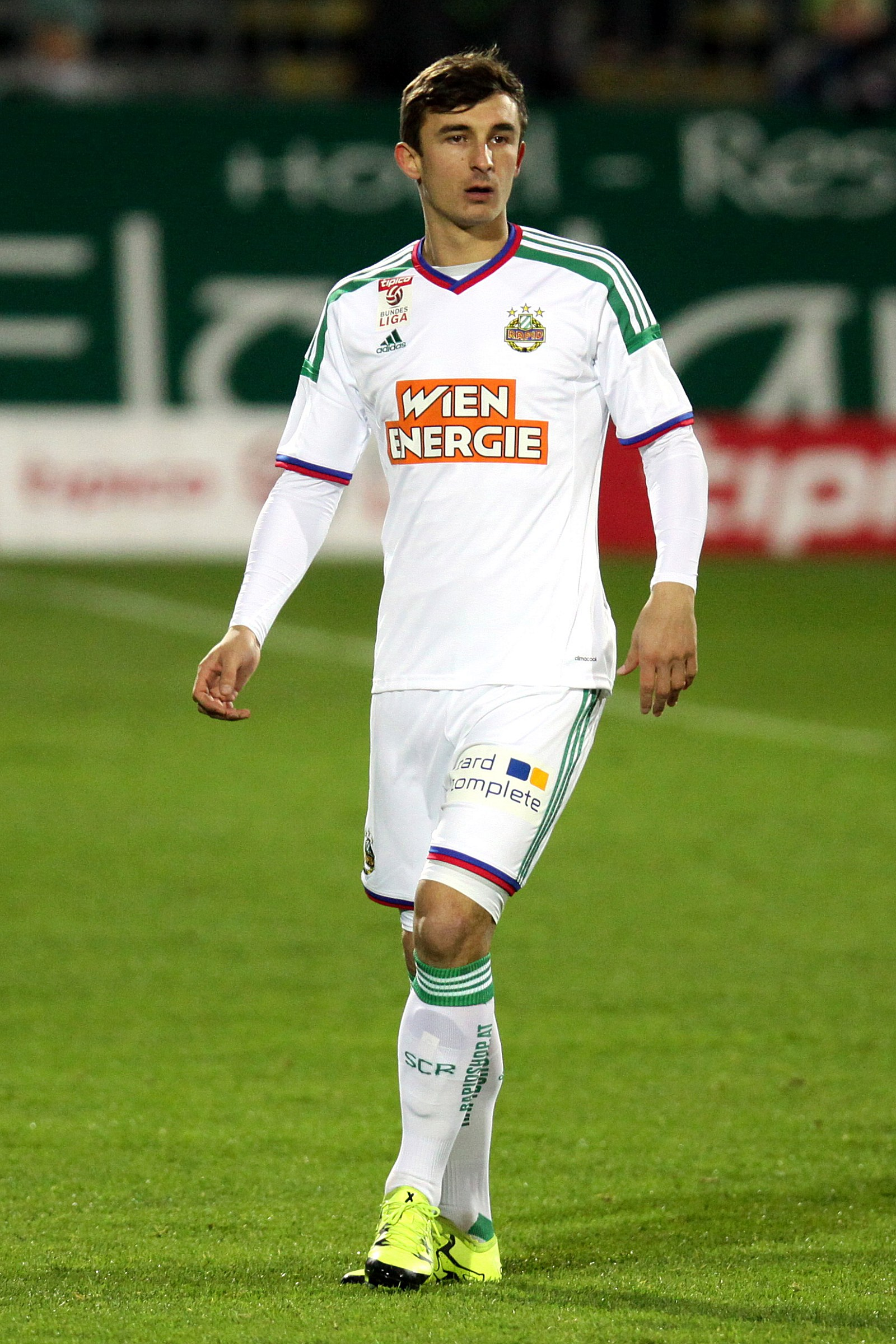 Match of the Austrian Football Bundesliga – SV Mattersburg (green shirts) vs. SK Rapid Wien (white shirts) 1-6 (0-5) at 2015-11-21 in Pappelstadion, Mattersburg – The photo shows Matej Jelić.